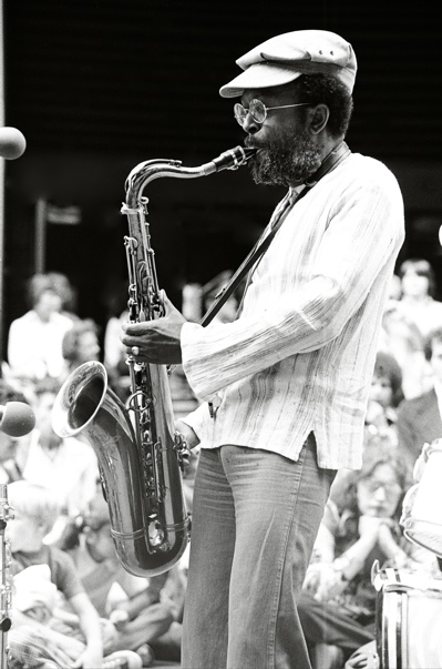 Jimmy Heath performing at the Heath Brothers concert, Rockefeller Center, NYC, June 1977